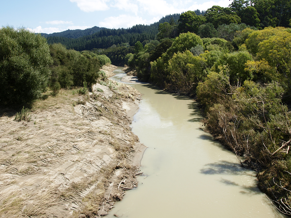 Hikuwai River (7 days after torrential rain), Gisborne Region, New Zealand